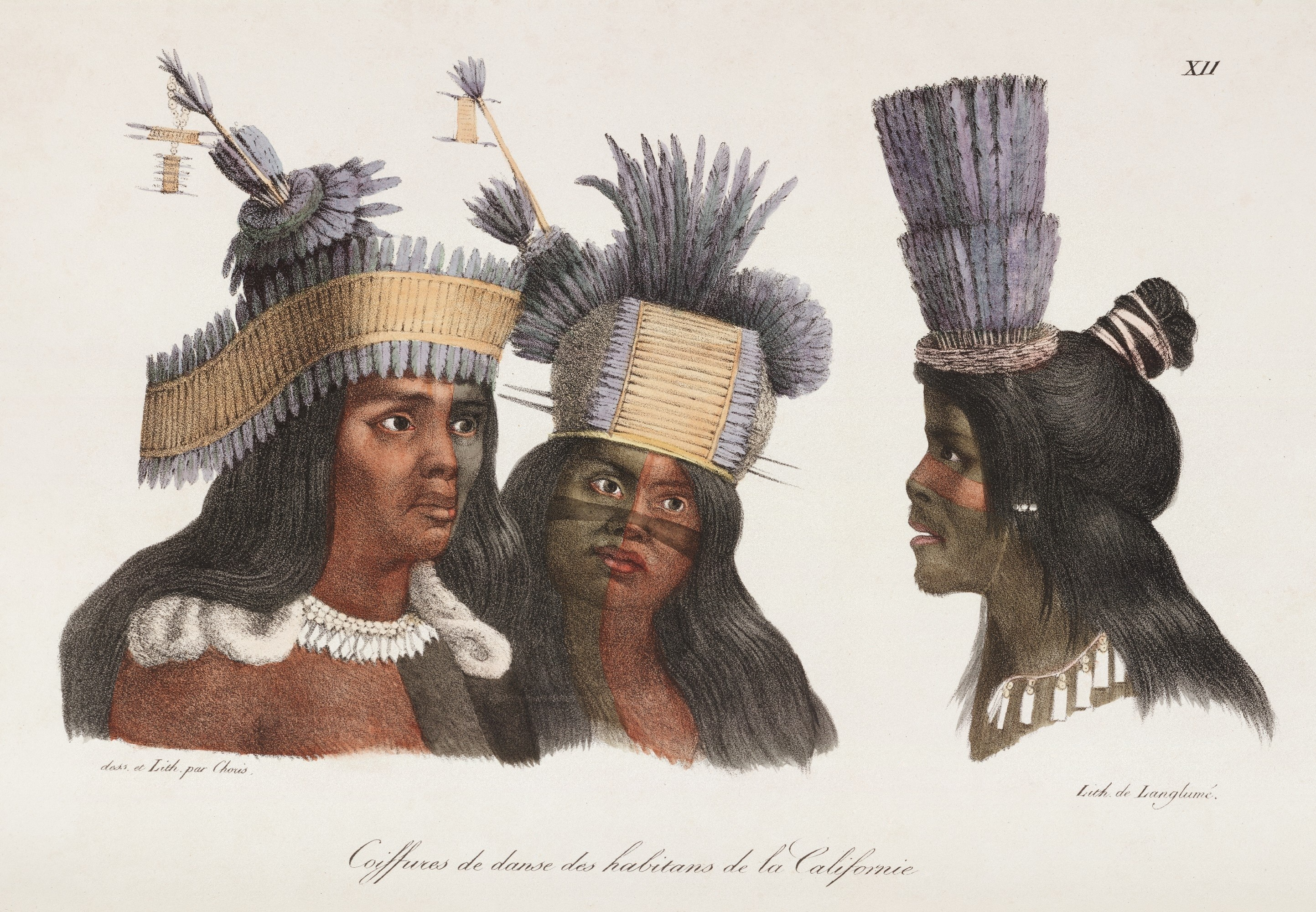 Dance headdresses of the native peoples of California by Louis Choris (1822)